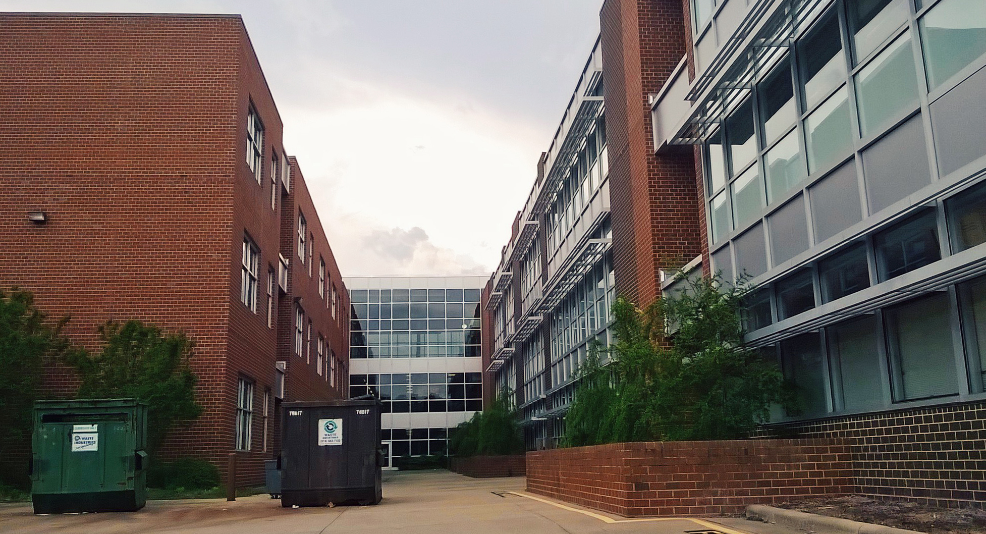 William G. Enloe High School rear